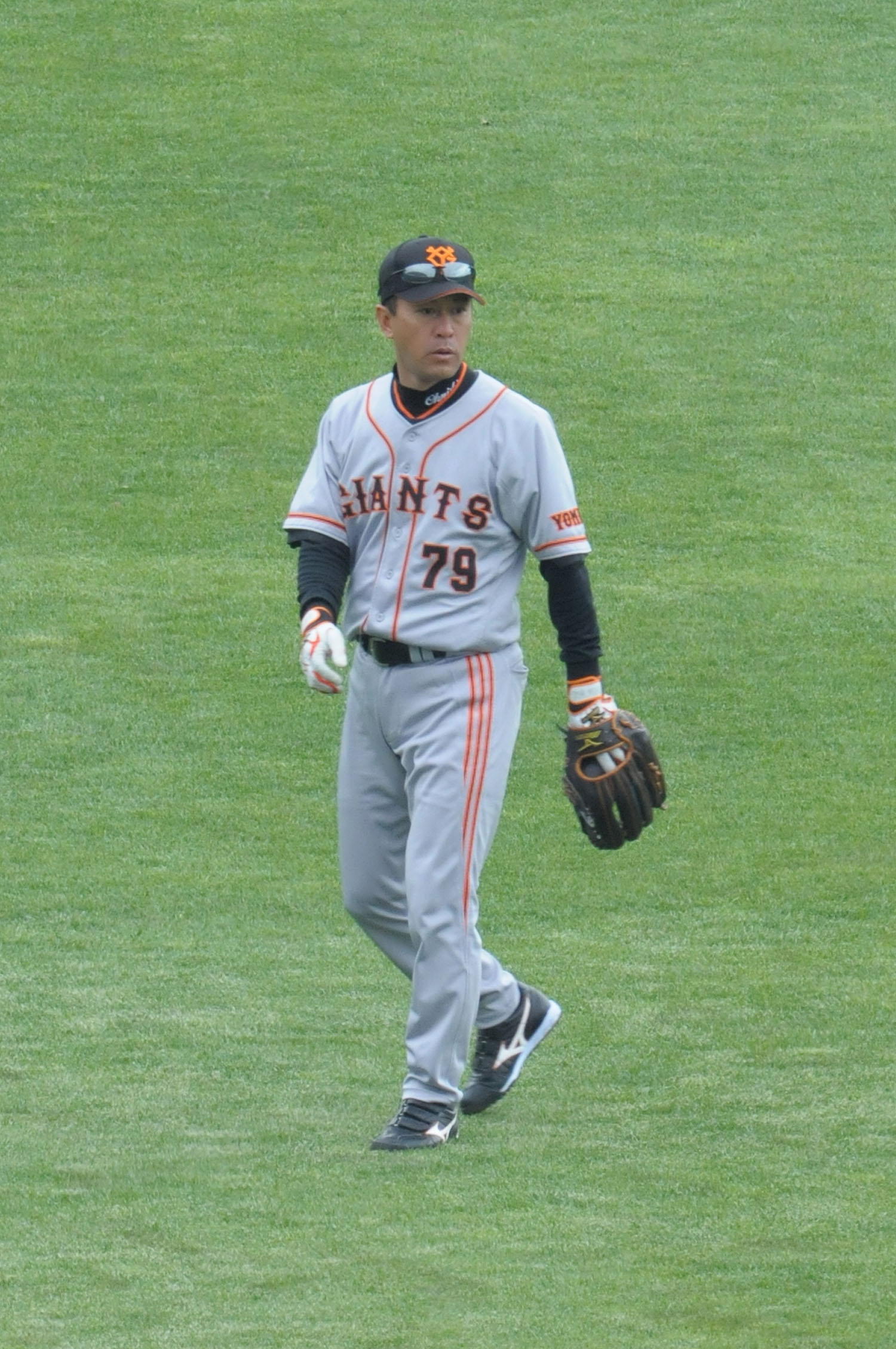 Takayuki Onishi, coach of the Yomiuri Giants, at Akita Prefectural Baseball Stadium.